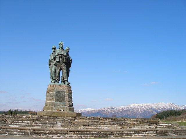 Commando Memorial, Spean Bridge, near to Highbridge, Highland, Great Britain.